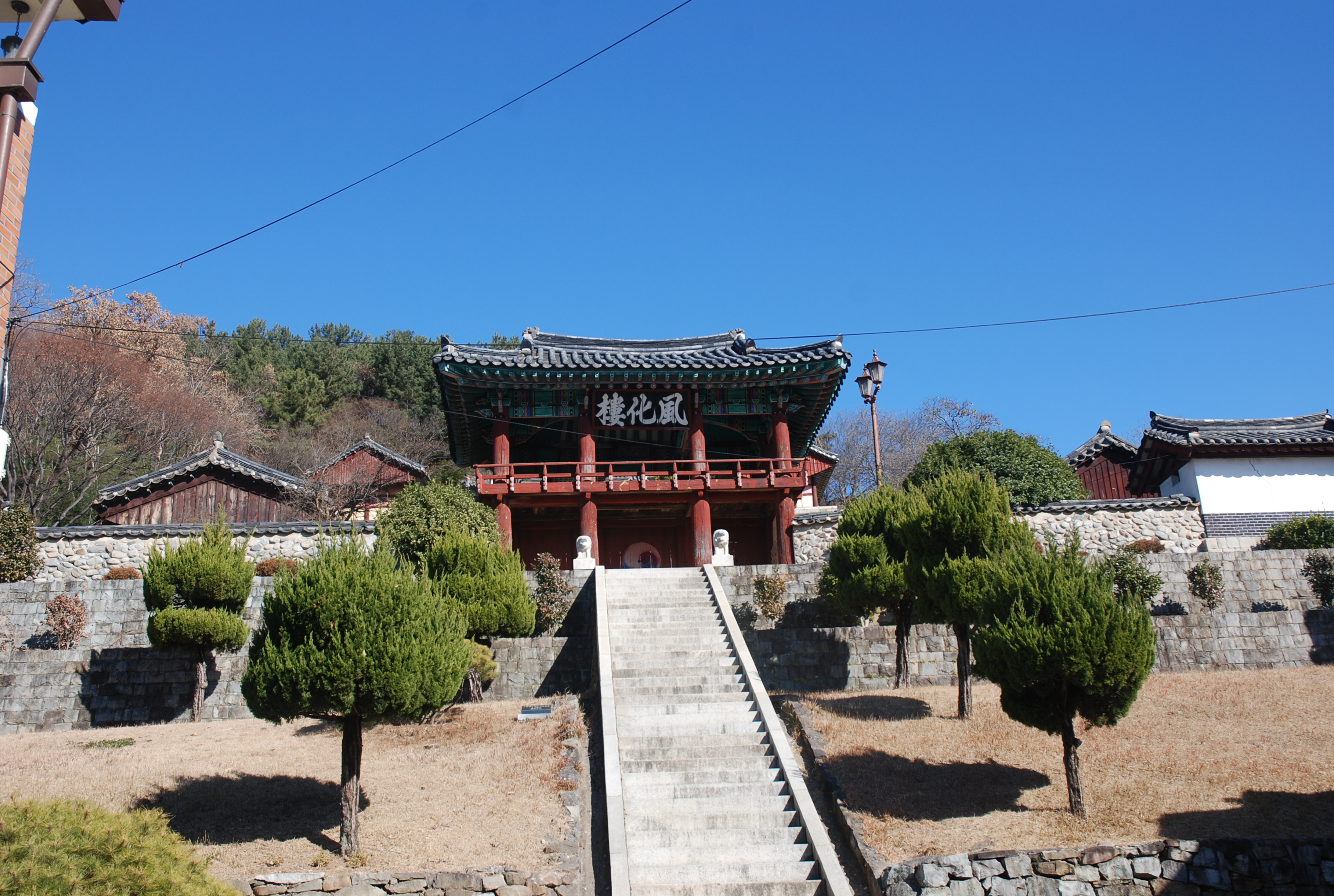 Jinju Hyanggyo, Old local University